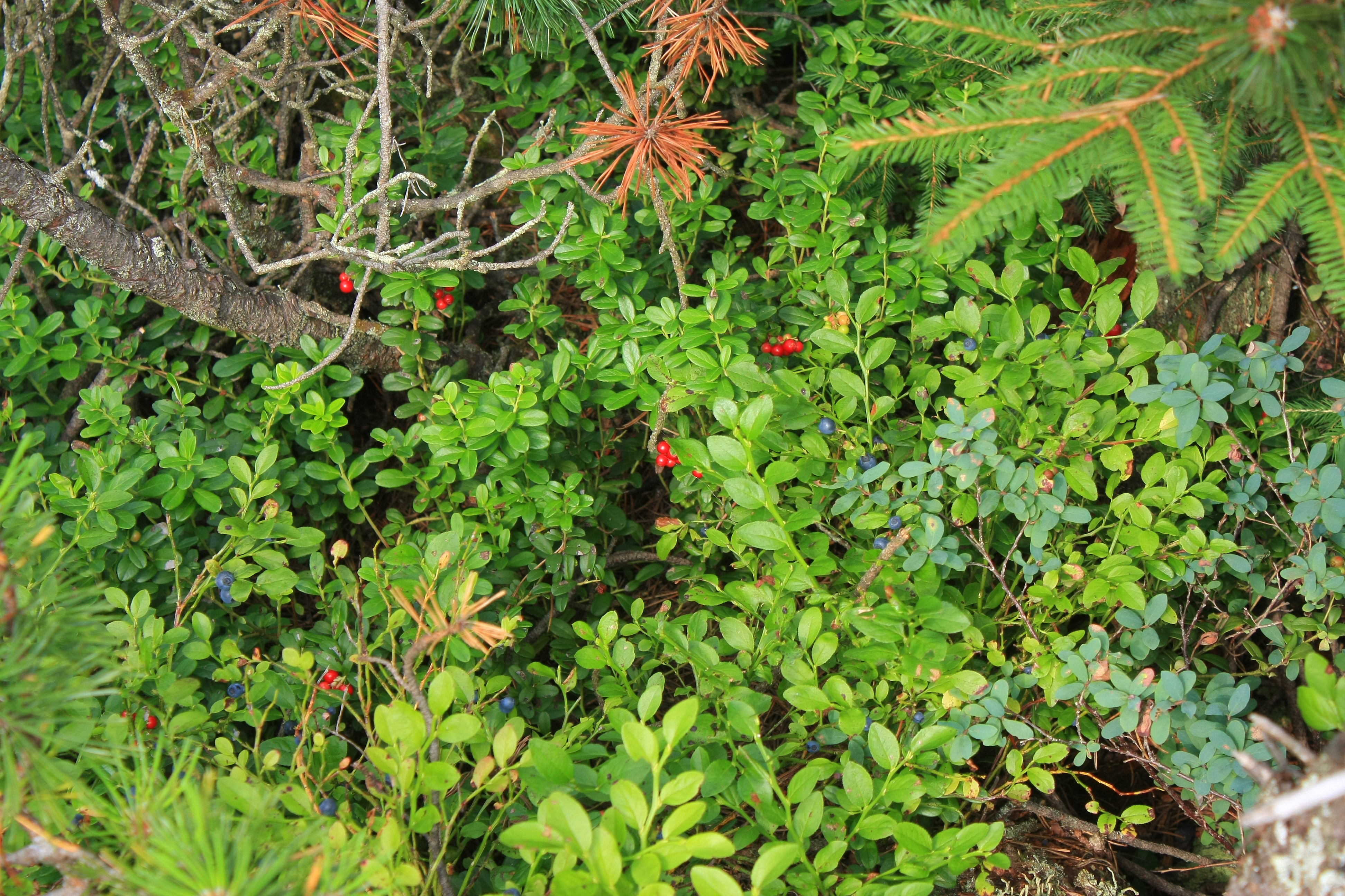 Großer Filz, Vaccinium myrtillus, Vaccinium vitis-idaea, Vaccinium uliginosum, Bavarian Forest Nationalpark